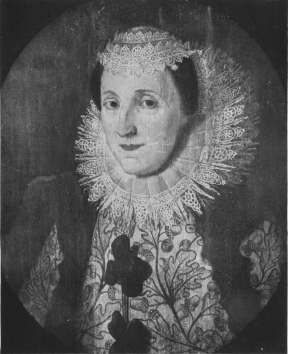 Photograph of Alice Barnham, from